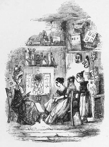 Illustration by John Leech for "The Cricket on the Hearth" (1843), a tale by Charles Dickens.